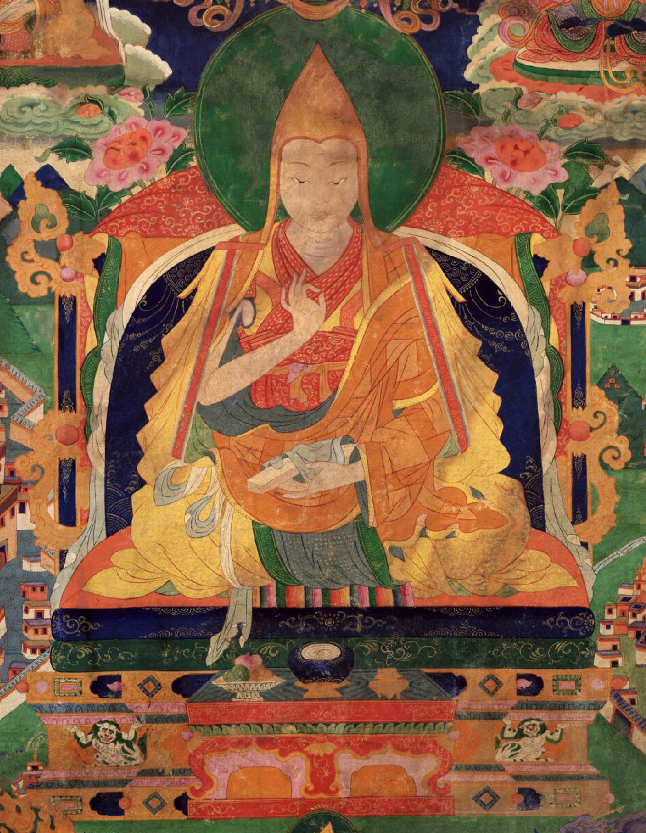 The Second Dalai Lama, Gendun Gyatso b.1476 - d.1542